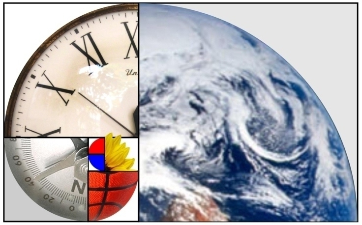 File:Gutza Wikipedia logo.jpg without text "Wikpedia". This image is used at Japanese Wikipedia mainpage.